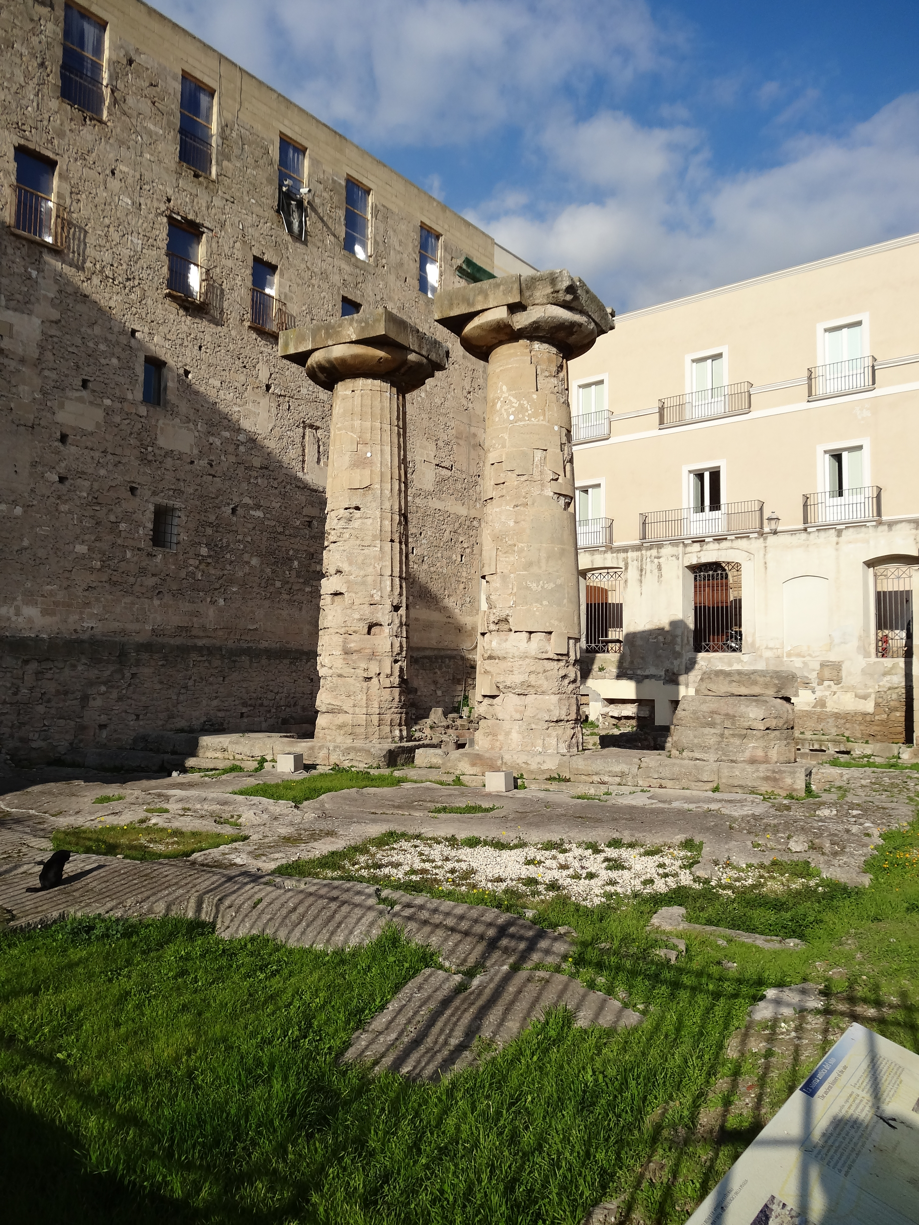 Colonne Doriche